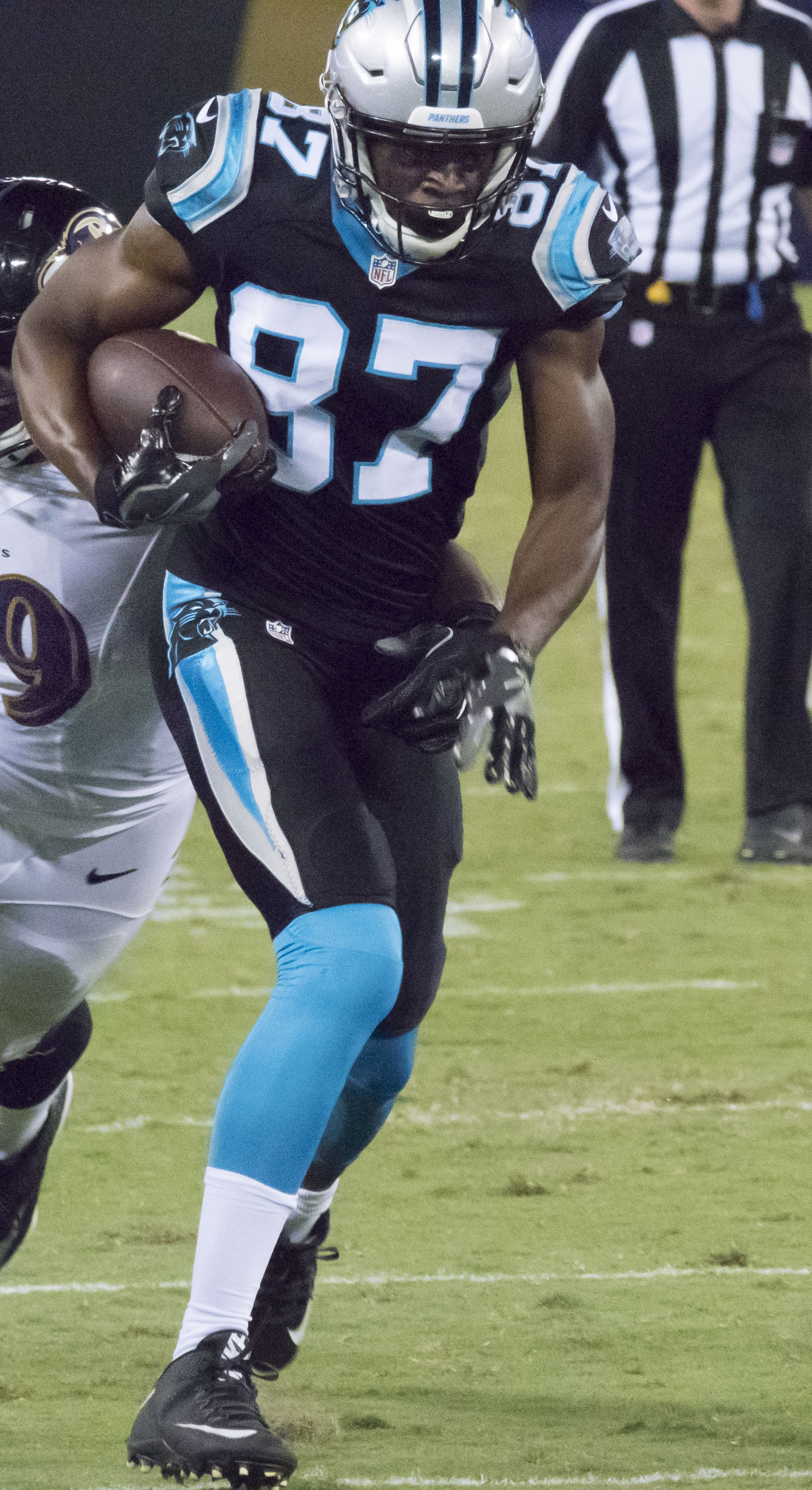 Panthers at Ravens 8/11/16